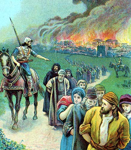 The Captivity of Judah, as in 2 Chronicles 36:11-21, illustration from a Bible card published by the Providence Lithograph Company